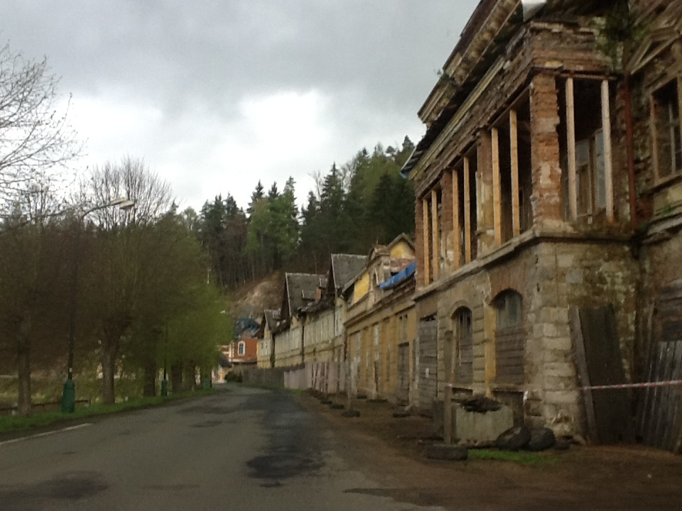 Lázně Kyselka 2014 3